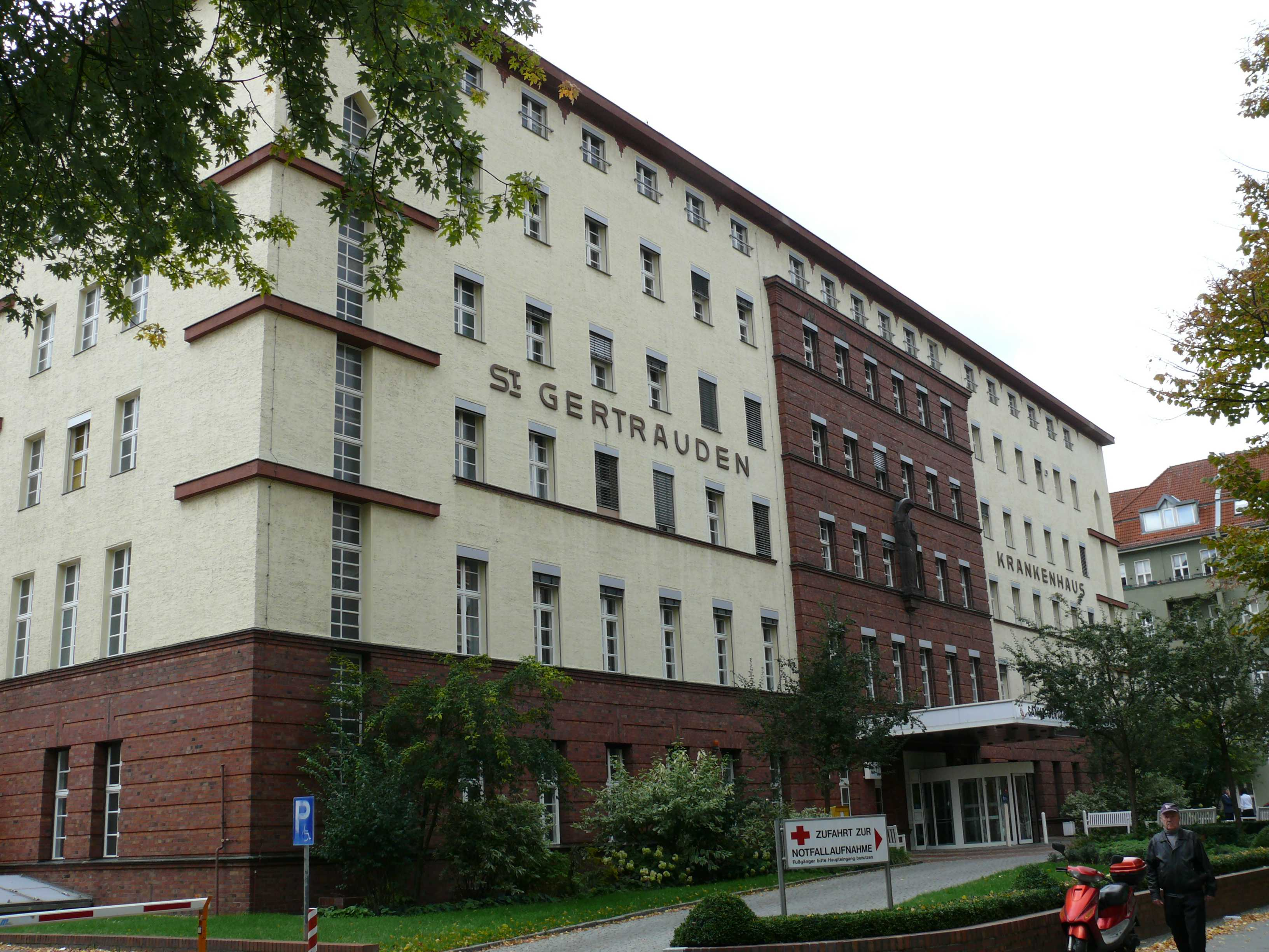 Berlin-Wilmersdorf Paretzer Straße St. Gertrauden-Krankenhaus